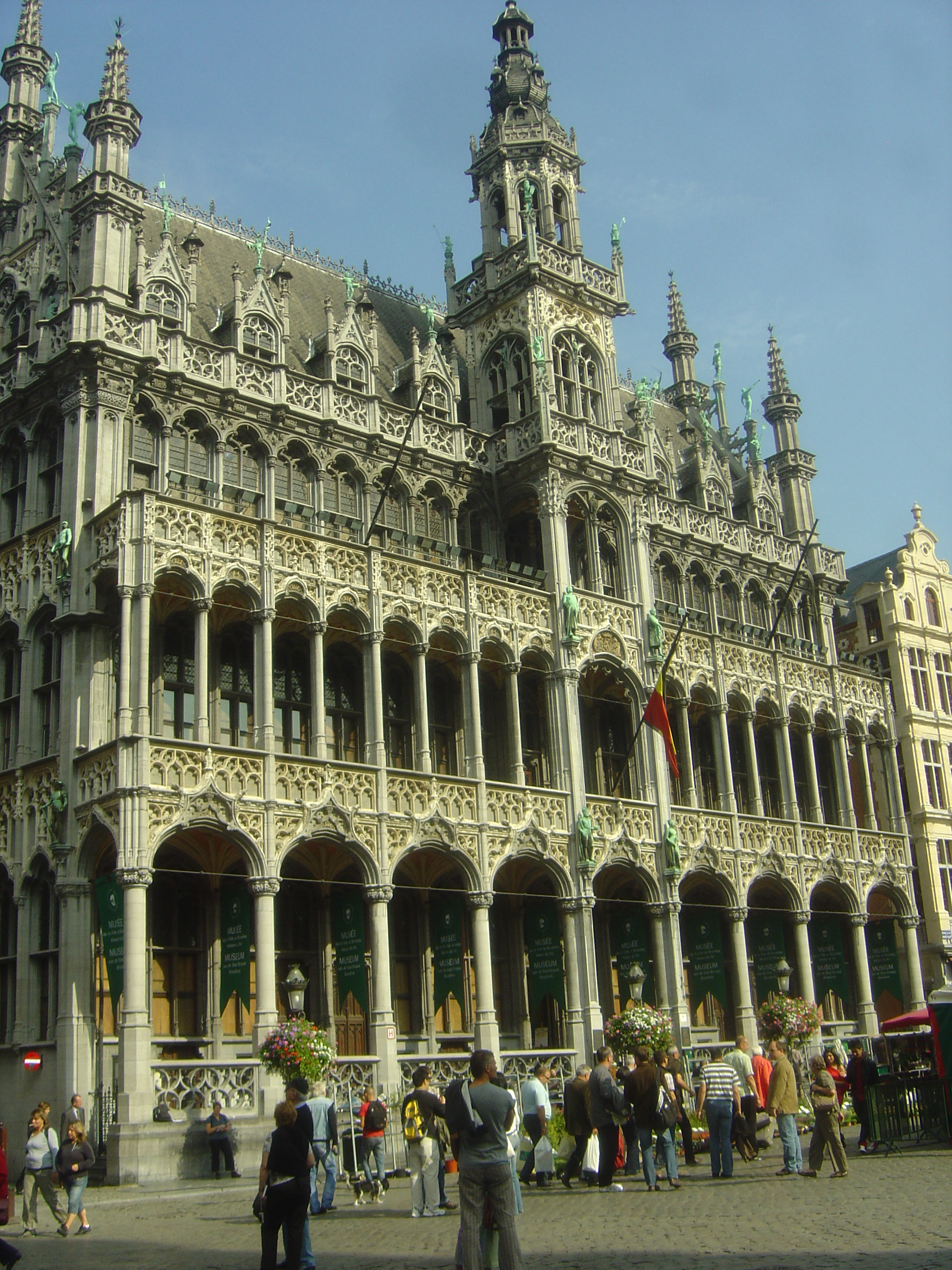 Grand Place, Bruxelles, La Maison du Roi